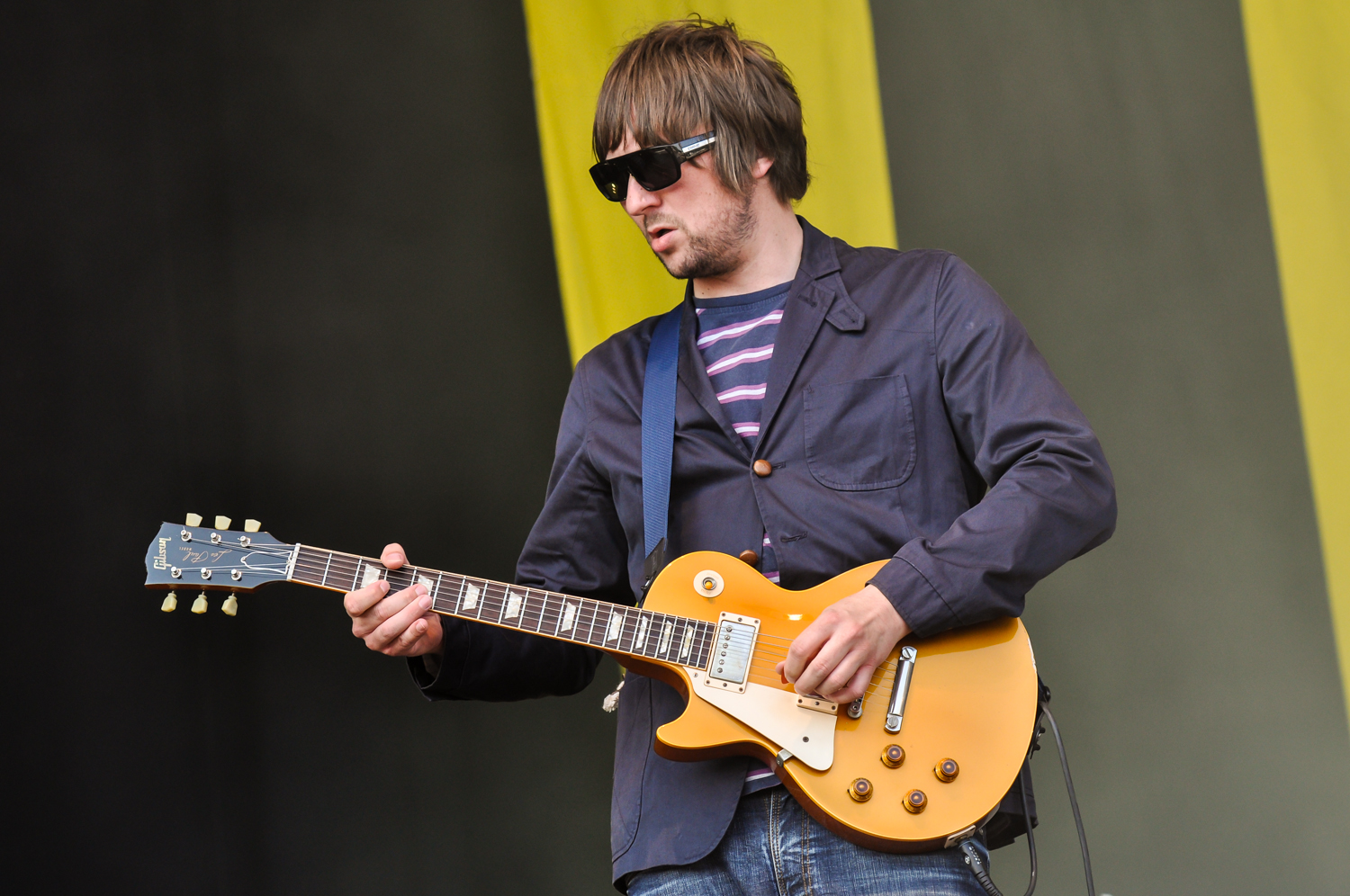 Kaiser Chiefs performing at Greenville Festival 2013